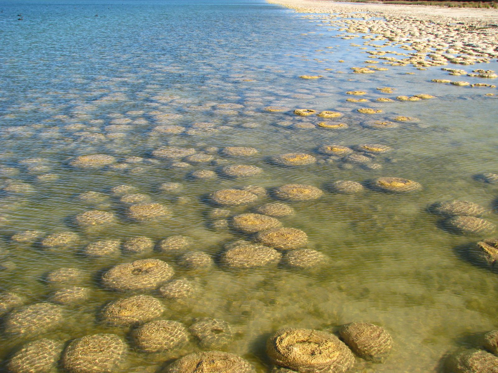 Stromatolites growing her in Yalgorup national park in Australia (there are also other stromatolithes in Shark Bay and in Western Australia. Stromatolites are "attached, lithified "sedimentary" growth structures, accretionary away from a point or limited surface of initiation." (Low tide)